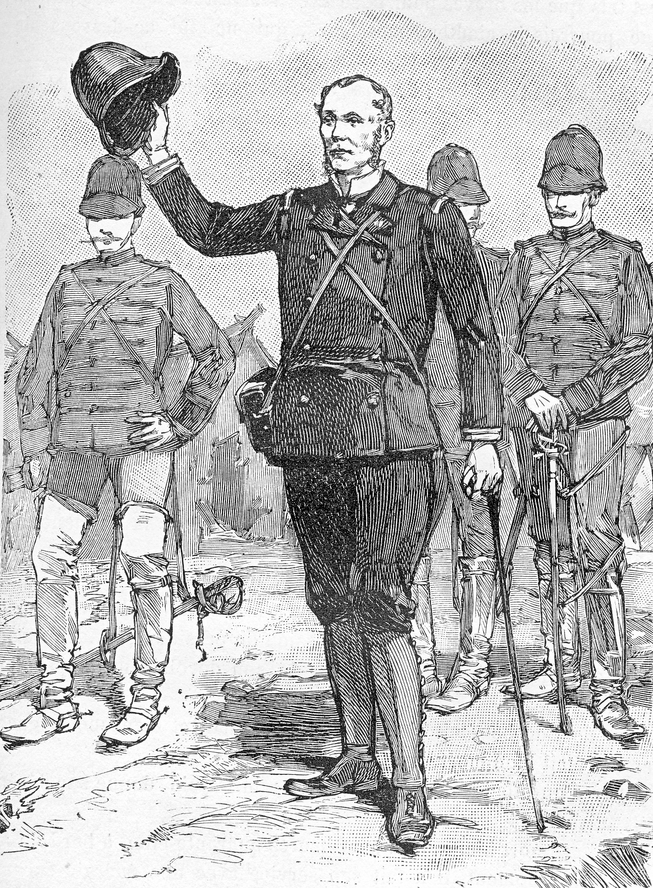 Admiral Courbet acknowledges the acclamation of his troops after the capture of Makung, 31 March 1885